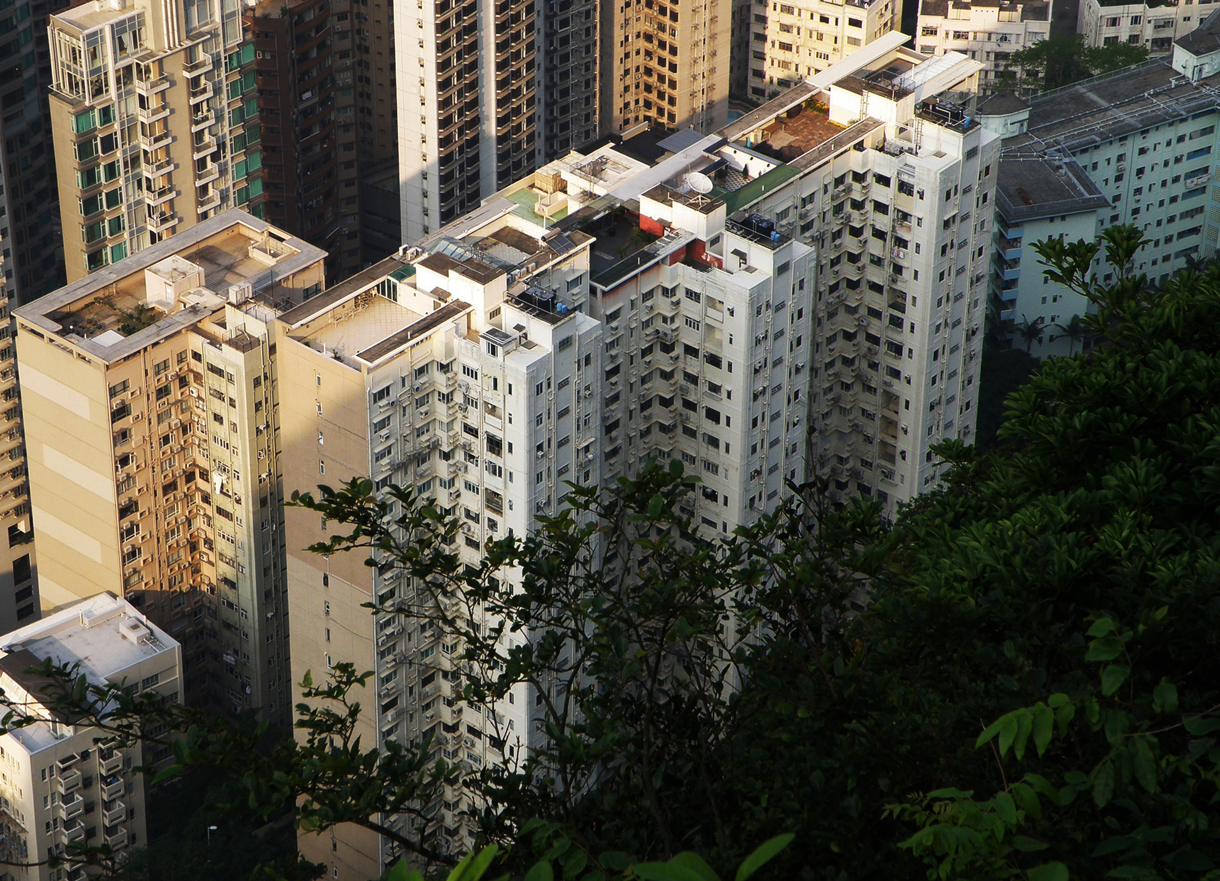 Pearl Gardens in Mid-levels Central, Hong Kong.